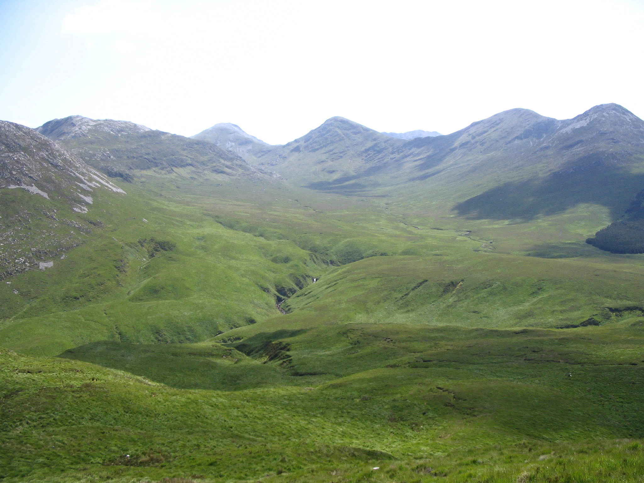 Polladirk river and Twelve Bens - connemara national Park - Irlande